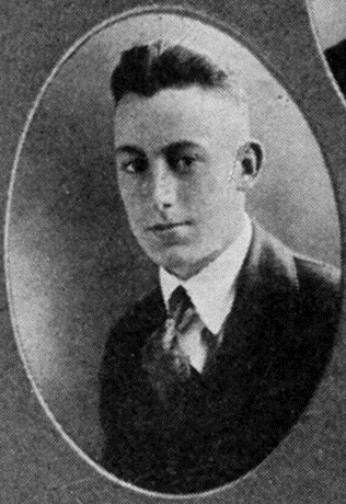 Milman Parry ’19